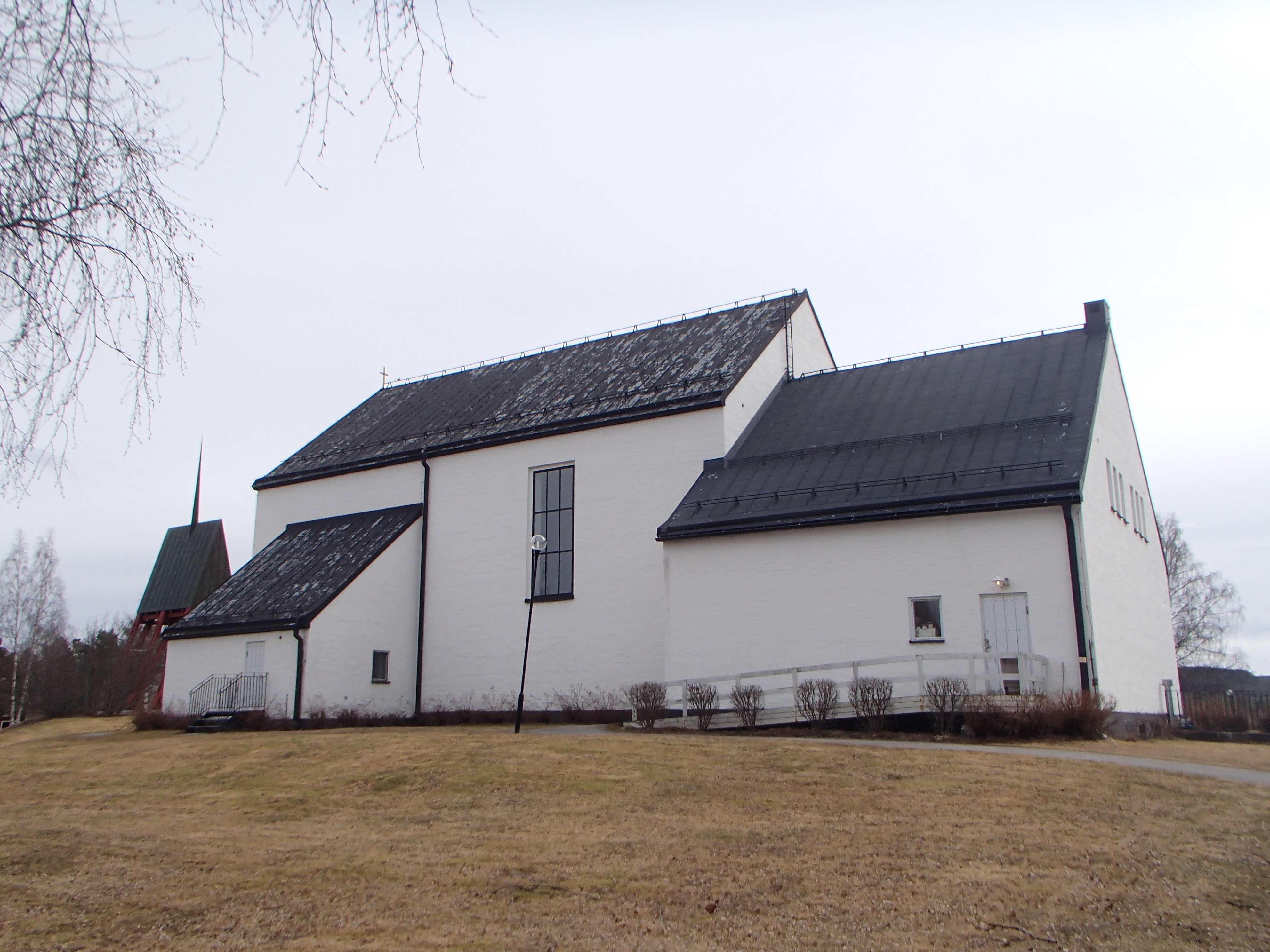 The church building of "Ånge kyrka" at Kyrkvägen 9, Ånge